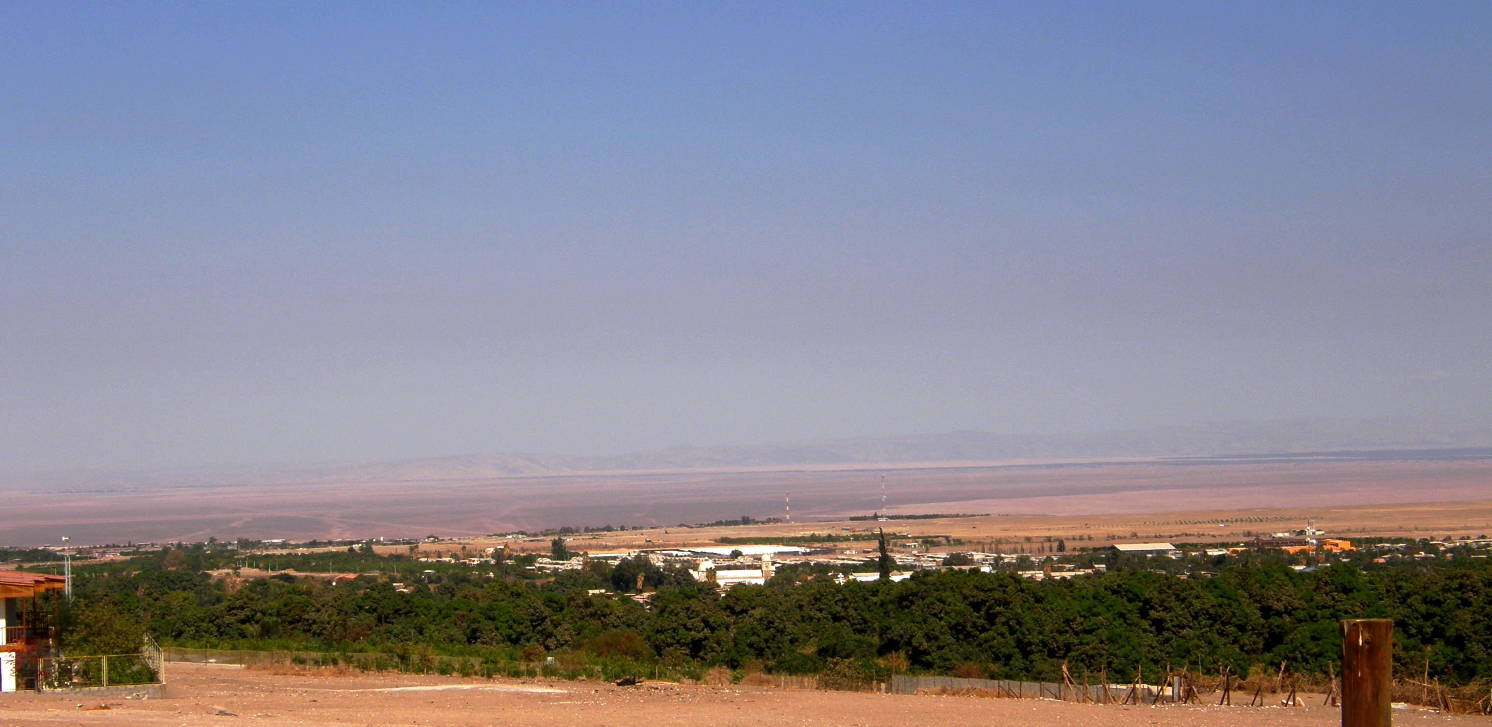 Pica oasis panoramic view, municipality of Pica Iquique province, region I, Chile